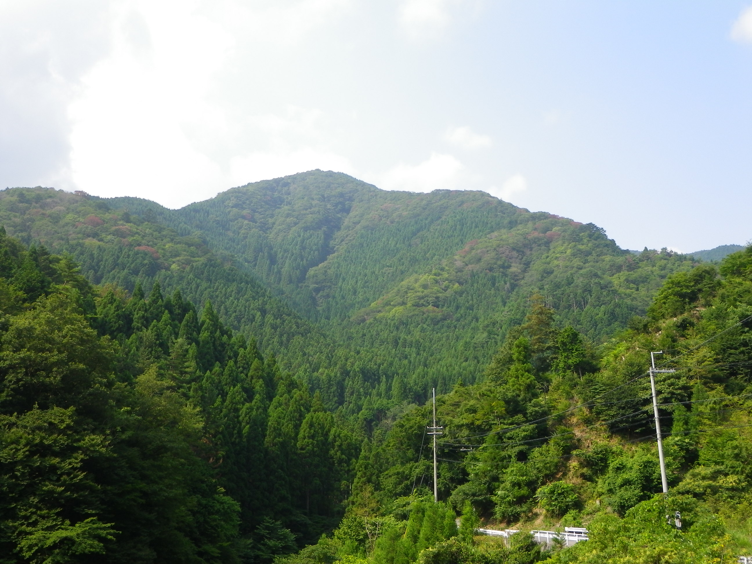 A part of the Mount Minako (Minako-yama) as seen from the ENE in Kyoto, Japan. Summit is not in the picture.